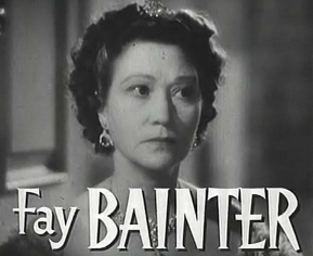 Cropped screenshot of Fay Bainter from the trailer for the film Jezebel.